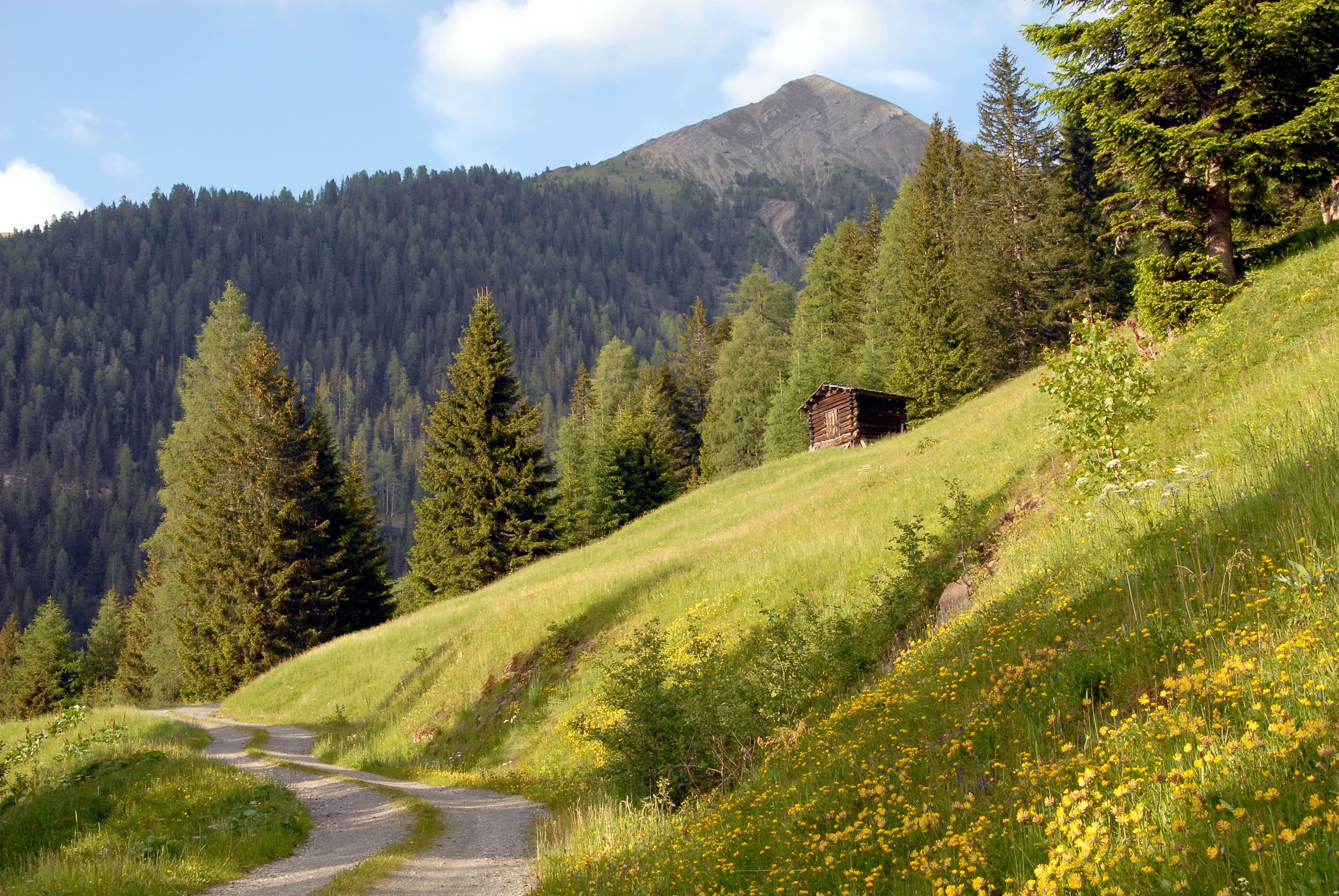 Lumkofel in the mountains north of Liesing in Lesachtal in the community of Lesachtal, Carinthia, Austria